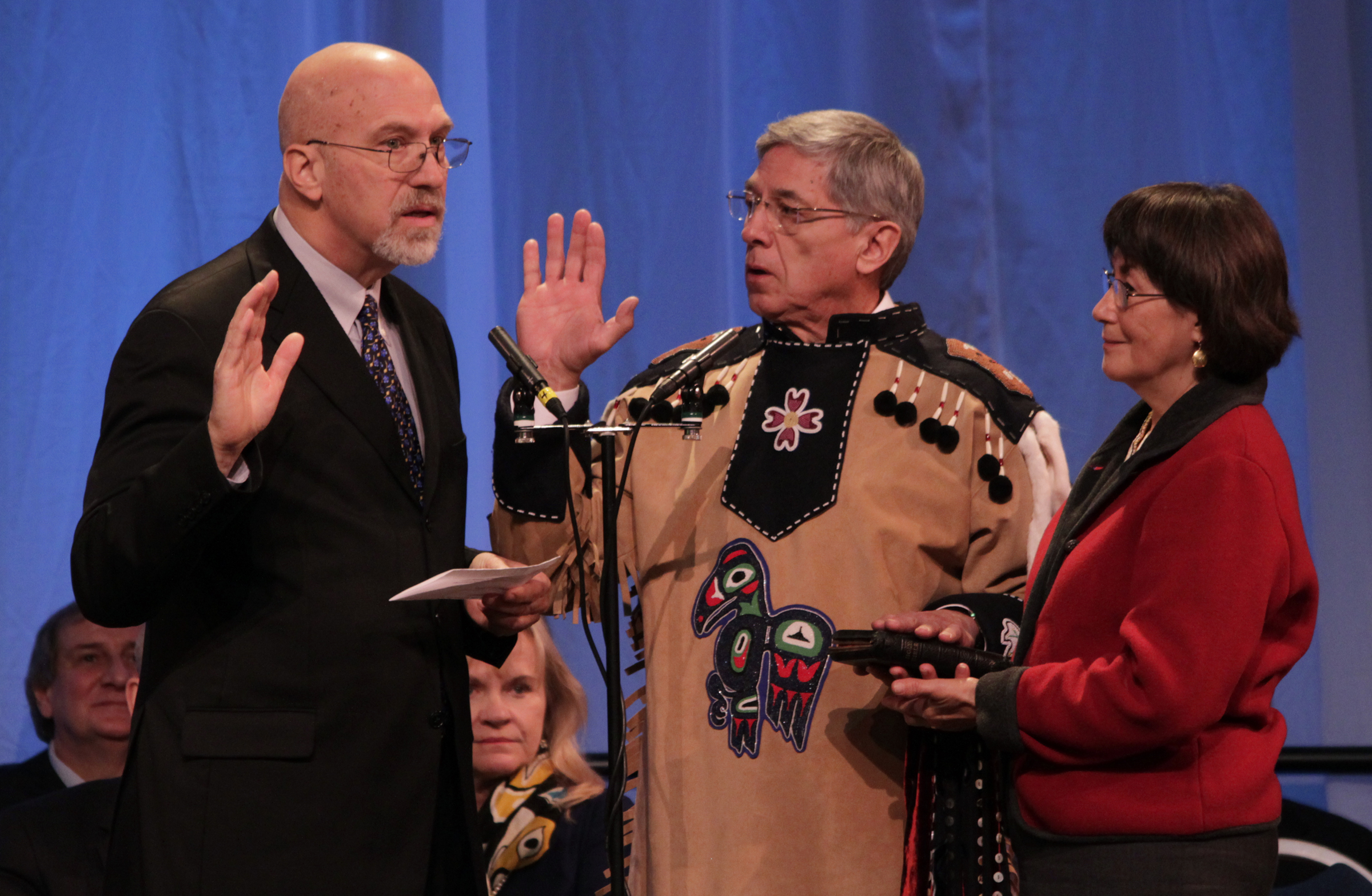 Byron Mallott, wearing traditional Yakutat Tlingit regalia, takes the oath of office as Alaska's lieutenant governor from retired Alaska Supreme Court justice Walter Carpeneti while Mallott's wife, Toni Mallott, holds the Bible. The inauguration ceremony took place Monday, Dec. 1, 2014 in Juneau, Alaska's Centennial Hall. (James Brooks photo)